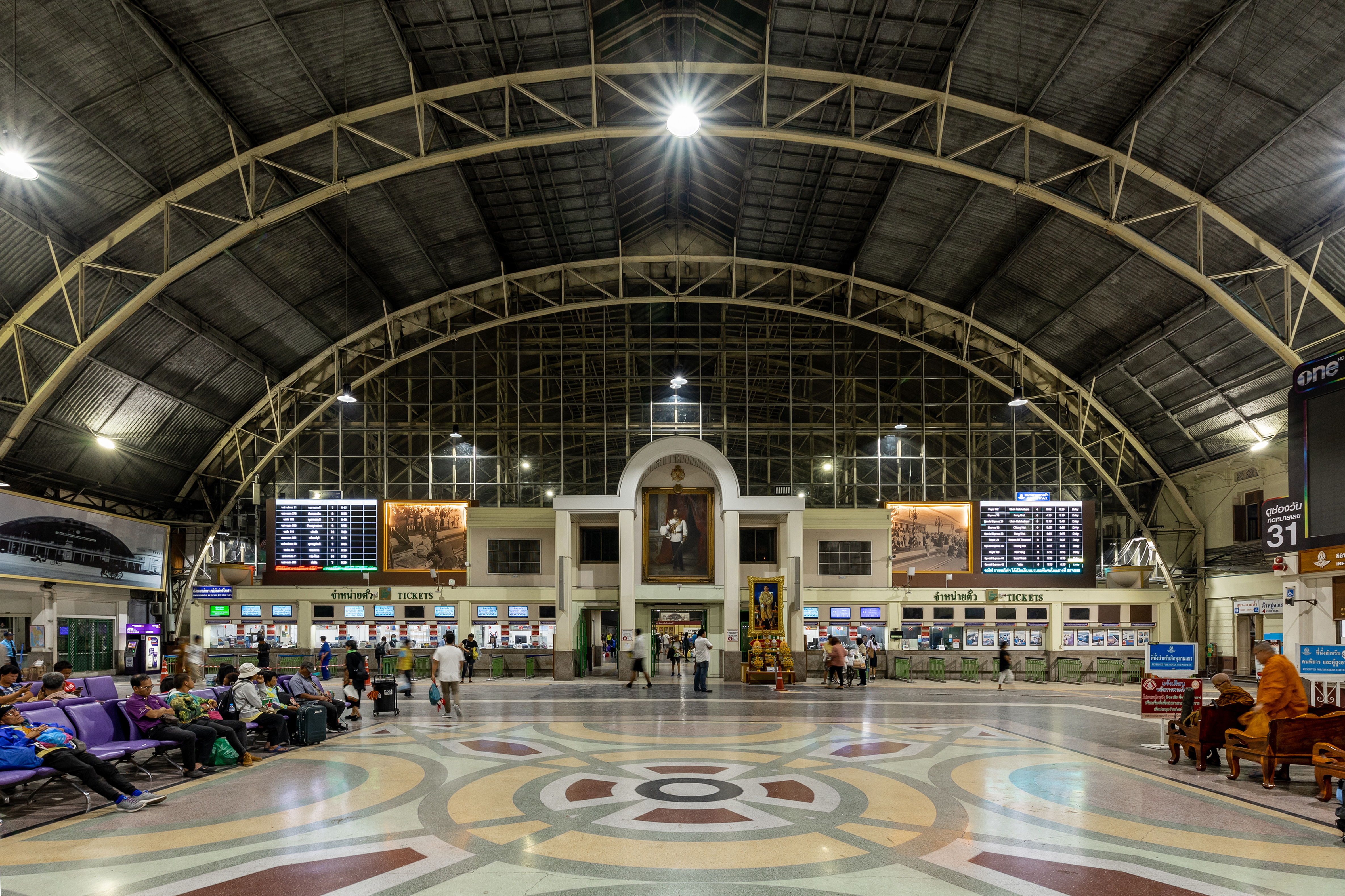 Hua Lamphong Railway Station, Bangkok, Thailand.